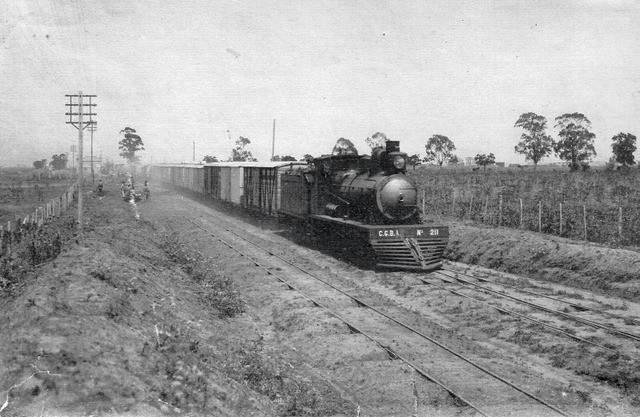 A CGBA train pulled by a steam locomotive running on the tracks.